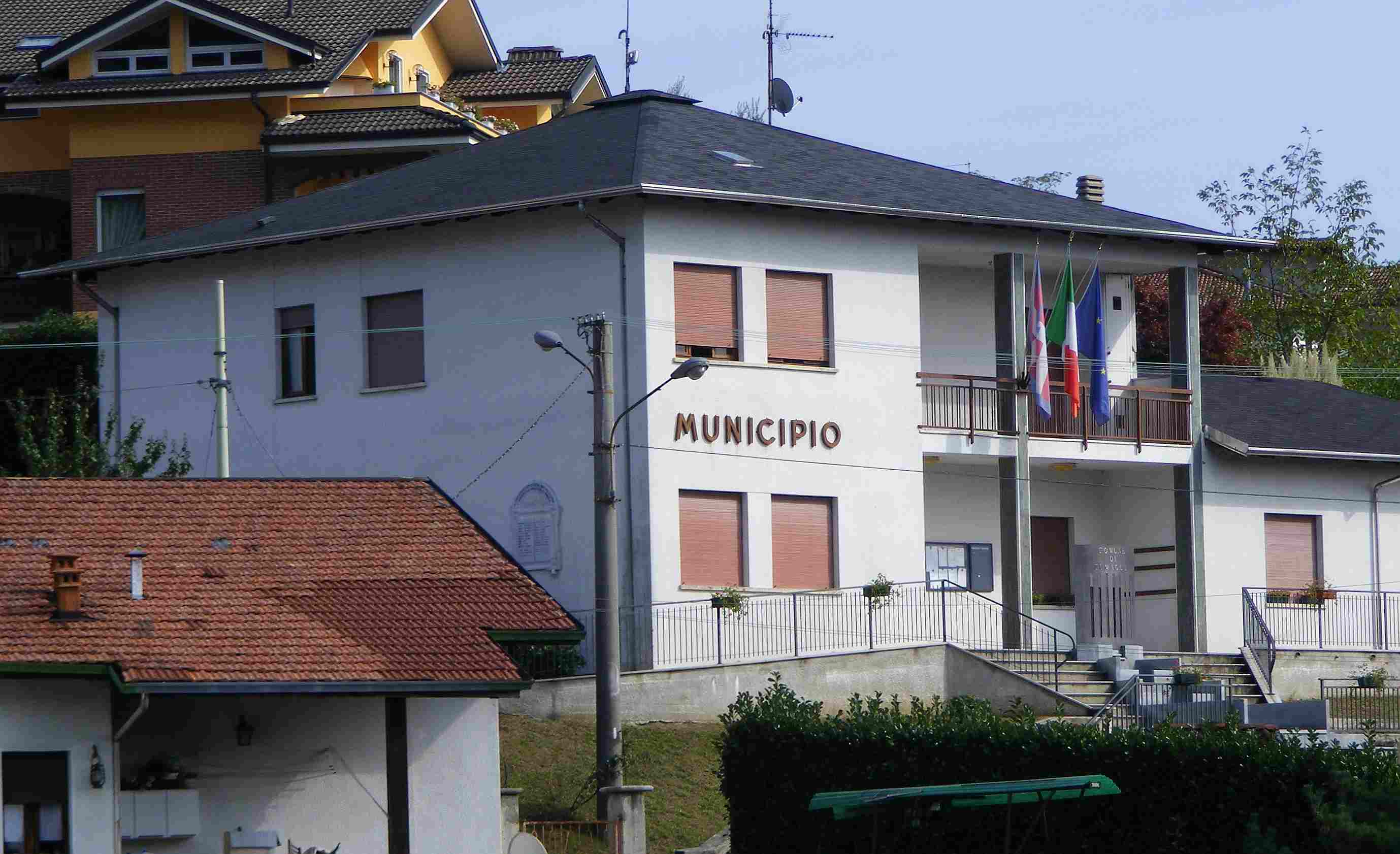 Zumaglia town hall (BI, Italy)